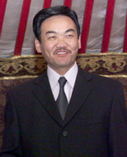 ULAN BATOR. President Putin with Mongolian President Natsagiyn Bagabandi.